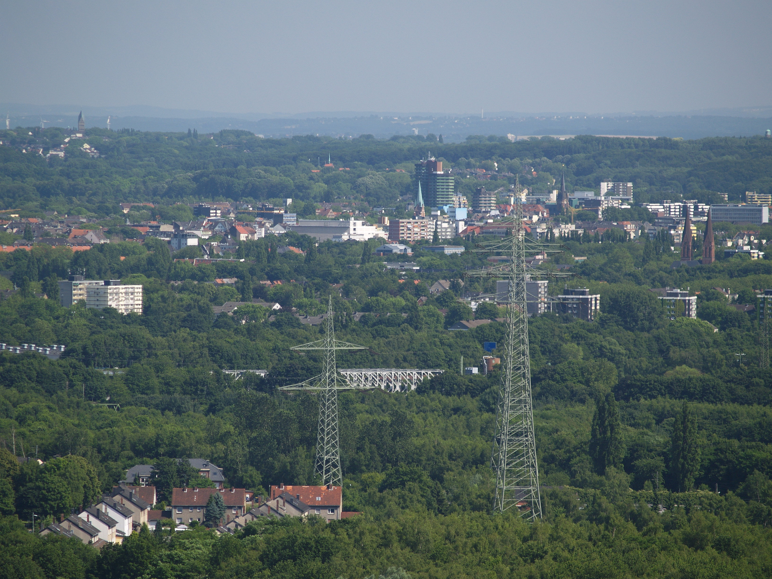 View from Halde Hoheward direction southeast